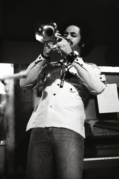 Cecil Bridgewater, Boomer's NYC 1976